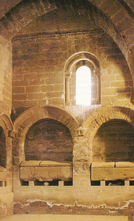 Monastery of Signena (Spain).